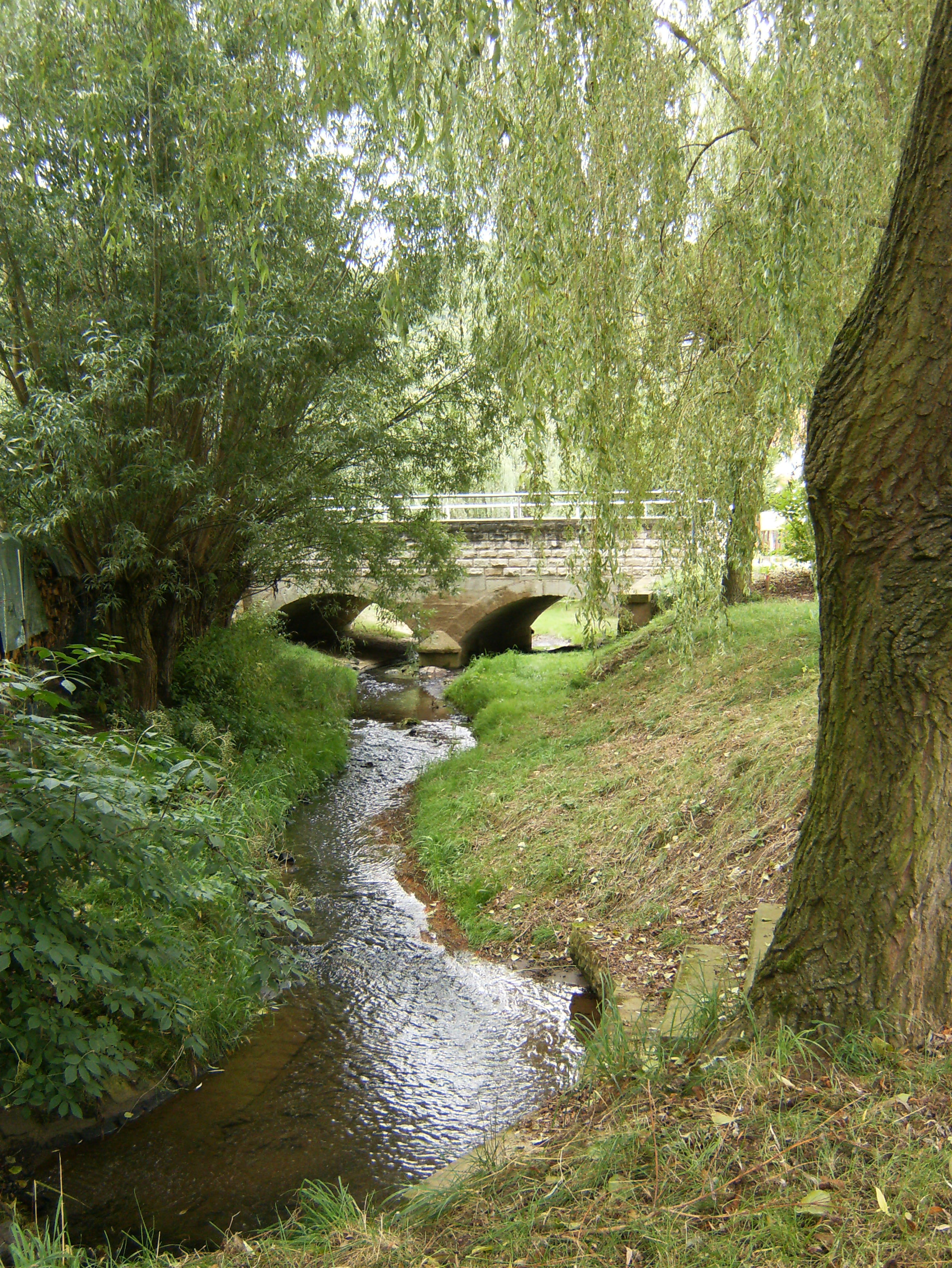 Collis, old bridge in the village.